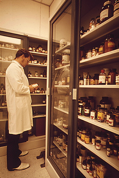 CABINETS FOR STORAGE OF PESTICIDE "STANDARDS" AT THE ENVIRONMENTAL PROTECTION AGENCY MISSISSIPPI TEST FACILITY LABORATORY IN BAY ST. LOUIS. SAMPLES FROM PESTICIDES INSPECTORS ARE COMPARED WITH MATERIALS HOUSED HERE, 03/1974